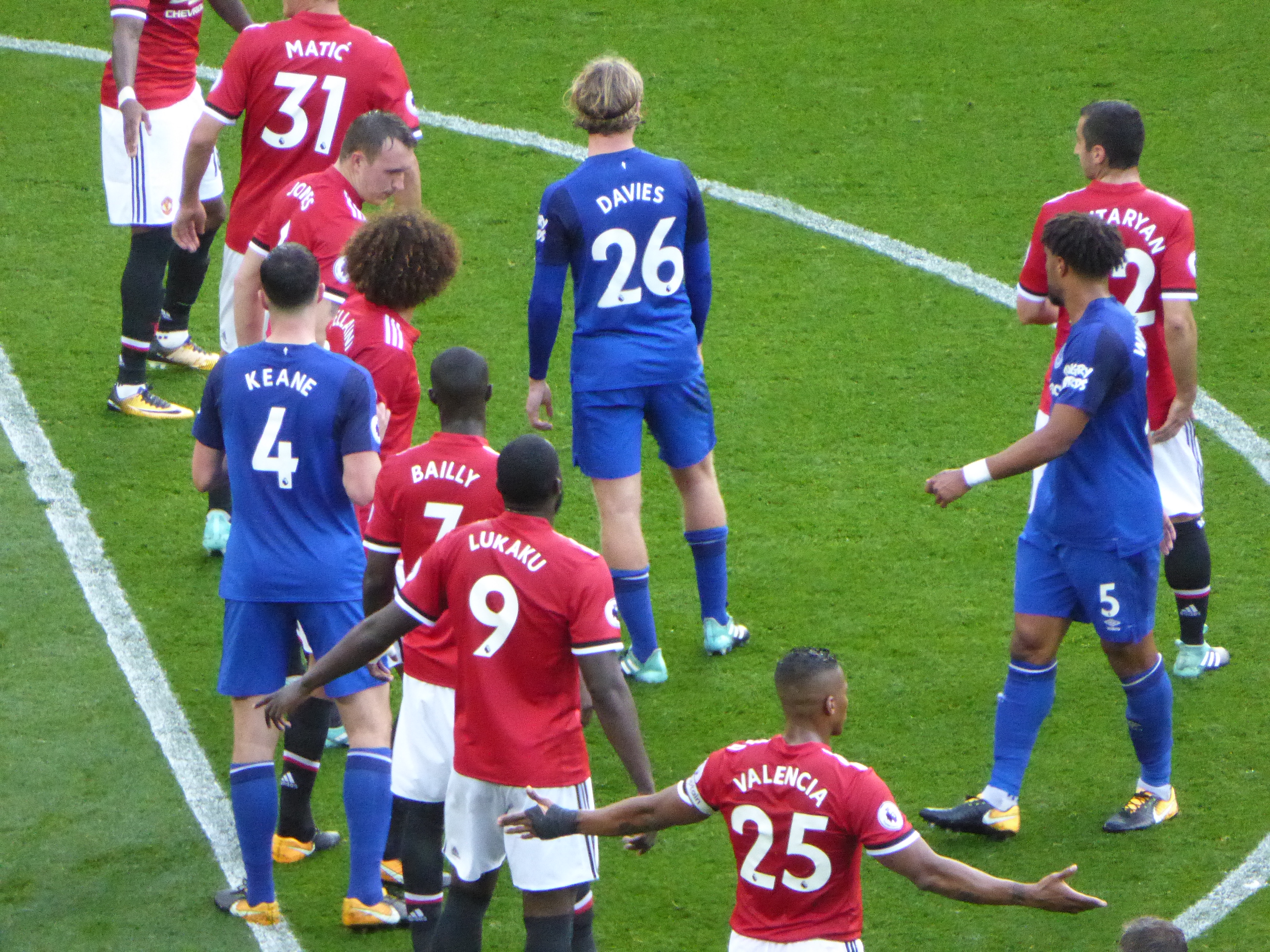 Manchester United v Everton (4-0), Premier League, Old Trafford, Manchester, Greater Manchester, England, 17 September 2017